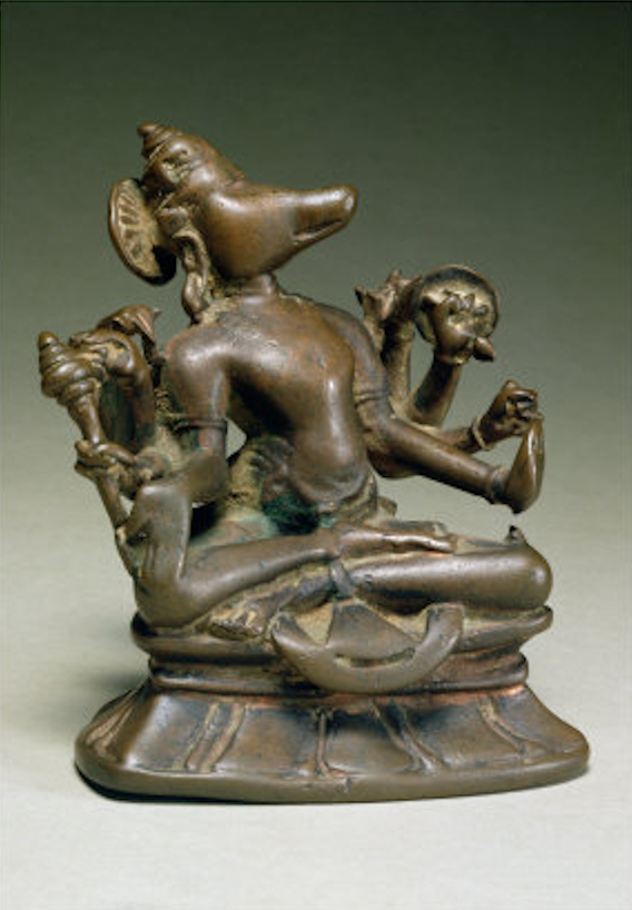 The picture of statue of God Varaah made in Gurjar Pratihar Rule kept in A.S.I Museum in Tamil Nadu.